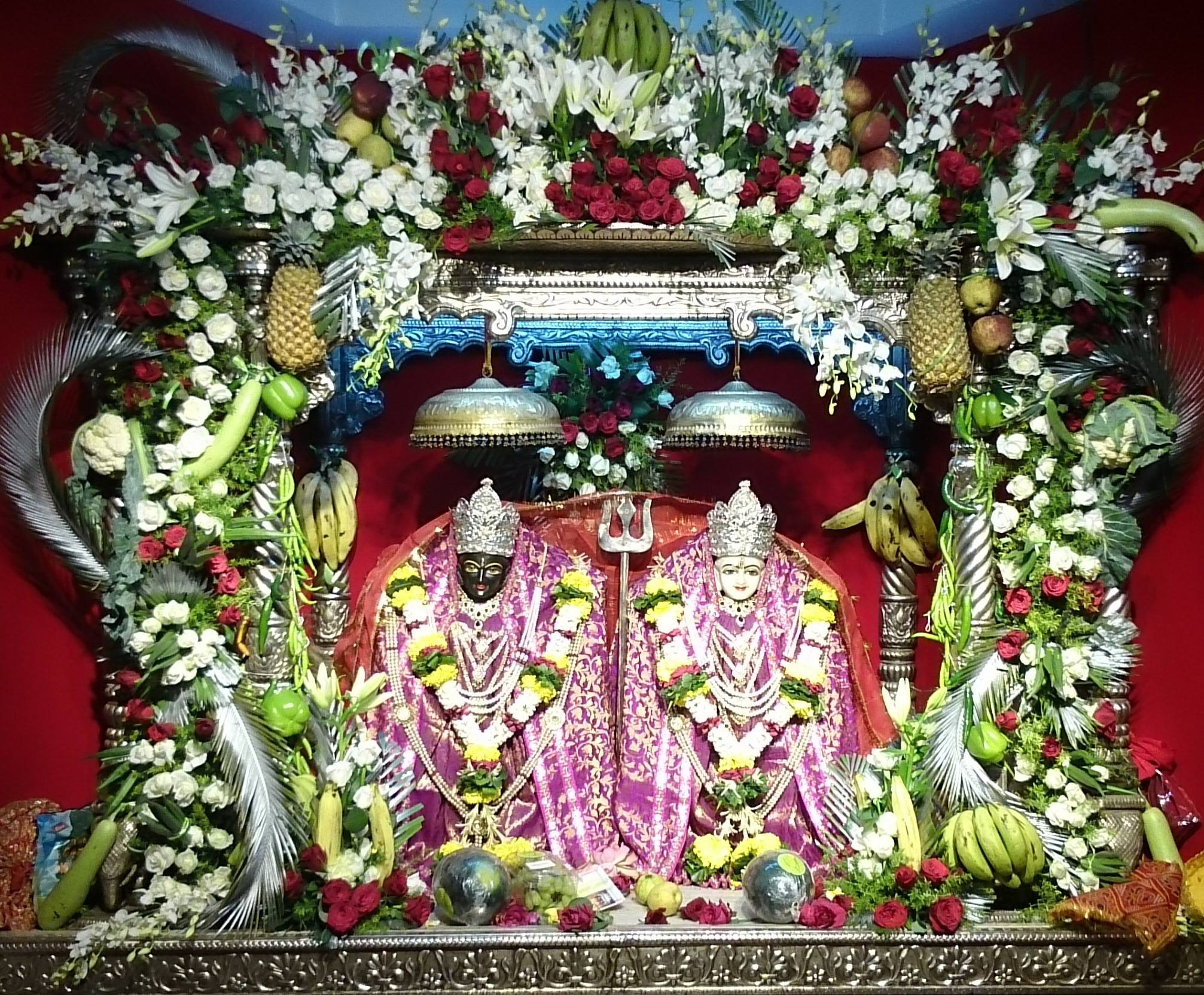 Shakambari Mandir Mumbai